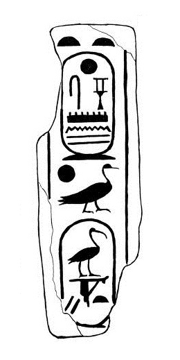 Drawing of a limestone block with cartouches of pharaoh Sekhemre-sementawy Djehuti, from Deir el-Ballas. Reign of Djehuti, 16th Dynasty, Second Intermediate Period.